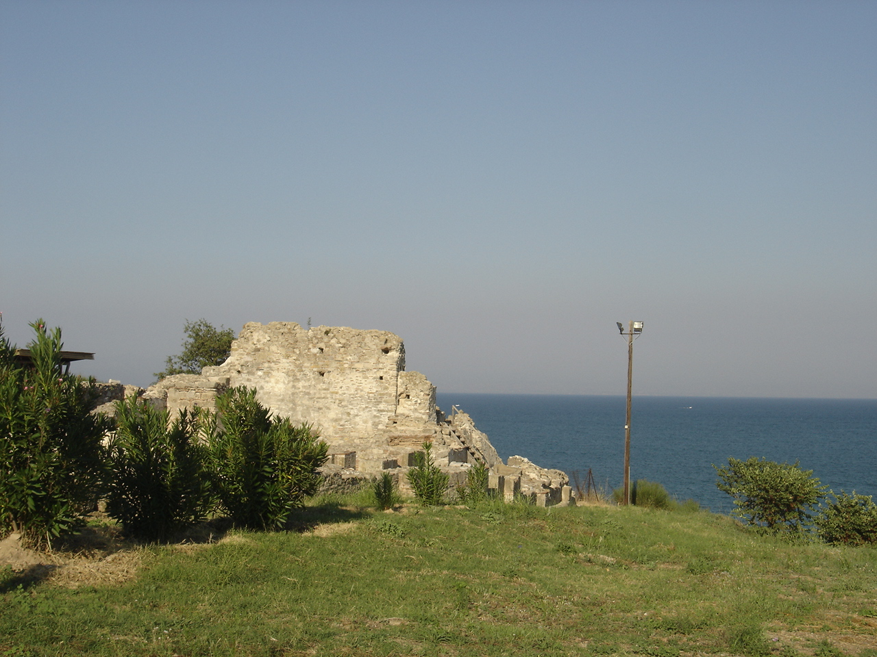 View of Archaea Pydna.